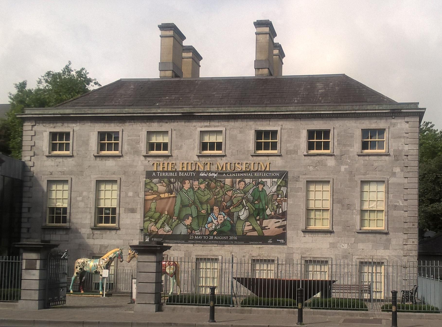 The Hunt Museum. Limerick, in the former Custom House, Rutland Street. Limestone building dating from 1765. Painted Horse sculptures outside are part of a continuing art project "Horse Outside" based on a song by the Rubber Bandits